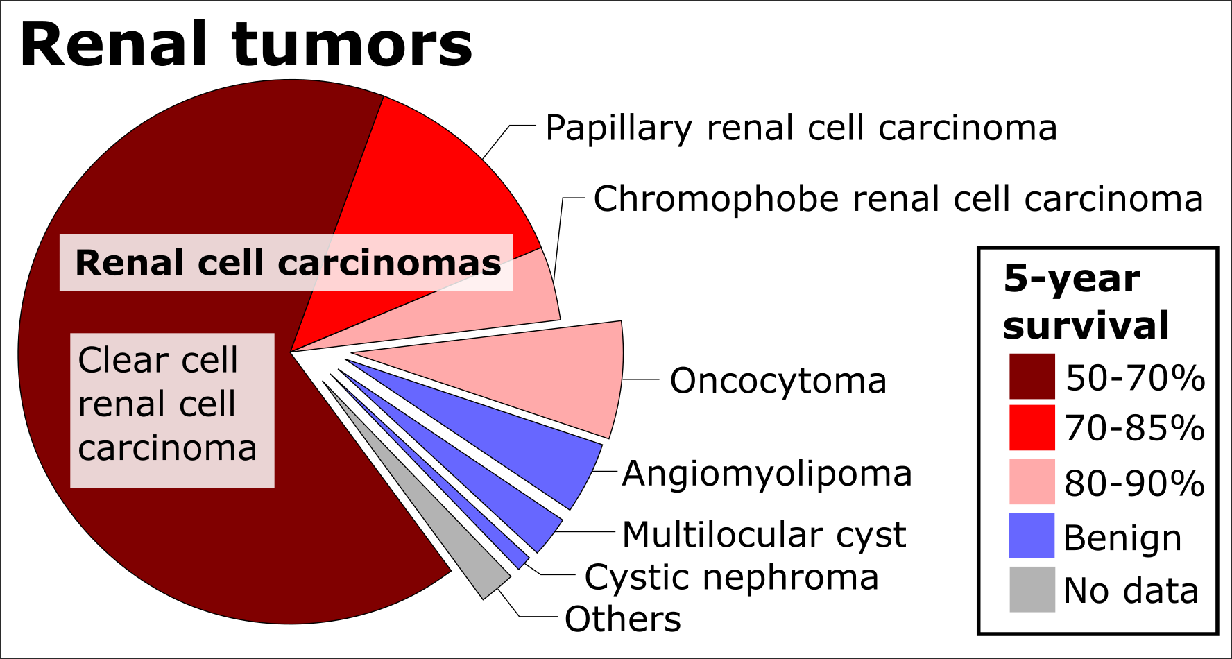 edit Renal tumors by relative incidence and prognosis. References: Incidences of renal cell cancers versus others: (2009). "Incidence of benign lesions according to tumor size in solid renal masses". International braz j urol 35 (4): 427–431. ISSN 1677-5538. Relative incidences of renal cell carcinomas: (2005). "Multifocal Renal Cancer: Genetic Basis and Its Medical Relevance". Clinical Cancer Research 11 (20): 7206–7208. ISSN 1078-0432. Prognoses of renal cell carcinomas: Ronald J Cohen. What is the prognosis of clear cell renal cell carcinoma (CCRCC)?. Medscape. Updated: Mar 11, 2019 Prognosis of oncocytoma: (2005). "Renal oncocytoma: a clinicopathological analysis of 45 consecutive cases". BJU International 96 (9): 1275–1279. ISSN 1464-4096. Data: Tumor typeCases5-year survival Clear cell renal cell carcinoma21650-69% Papillary renal cell carcinoma, type 11467-87% Papillary renal cell carcinoma, type 22967-87% Chromophobe renal cell carcinoma1478-87% Oncocytoma2363 Angiomyolipoma14Benign Multilocular cyst8Benign Cystic nephroma3Benign Others7